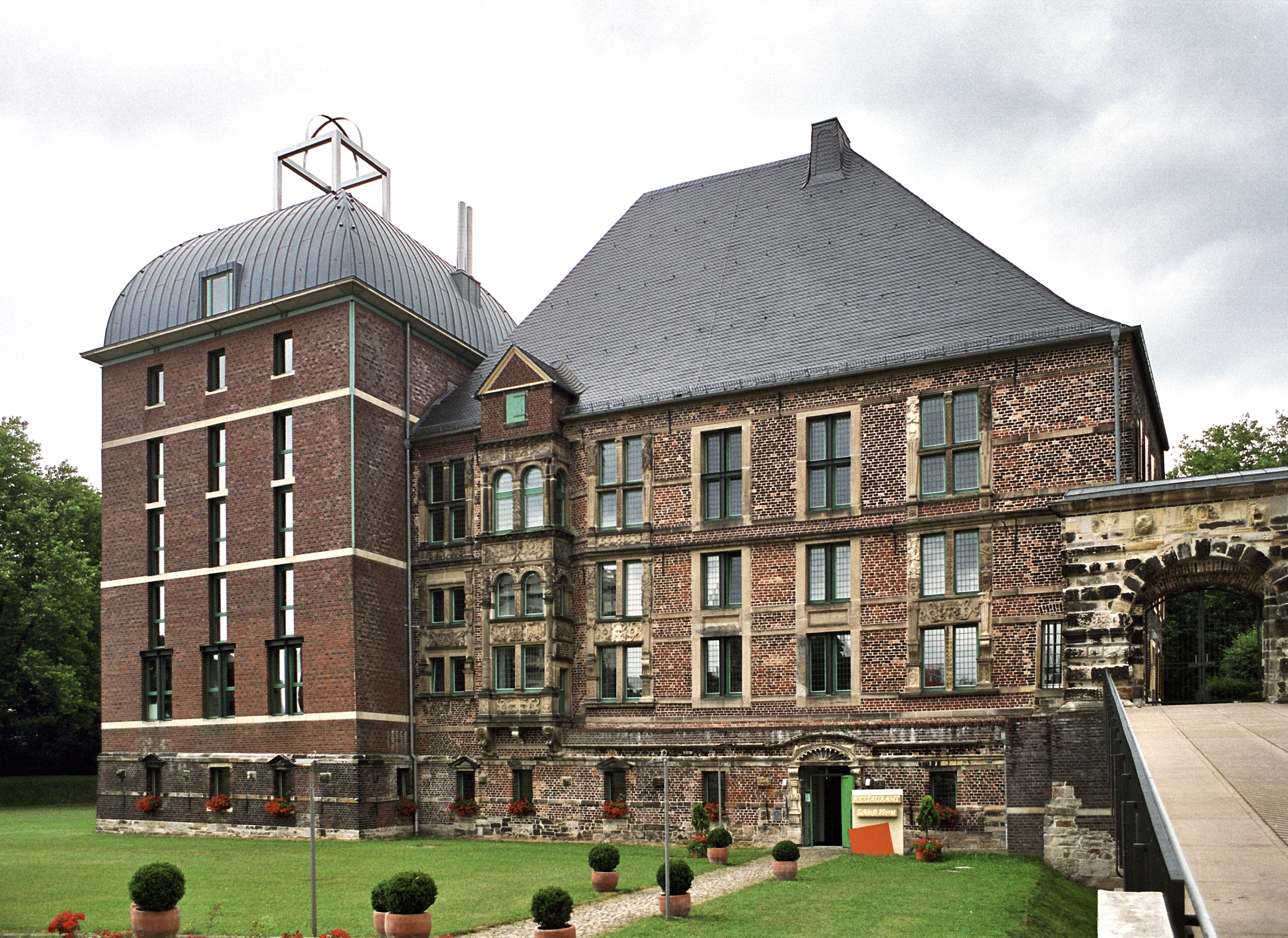 Schloss Horst in Gelsenkirchen, north-eastern aspect